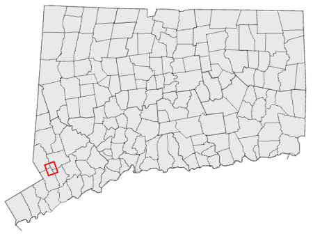 Map of Connecticut showing the Georgetown CDP.